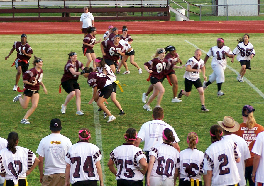 A Powder Puff flag football game in Bastrop, Texas, United States.